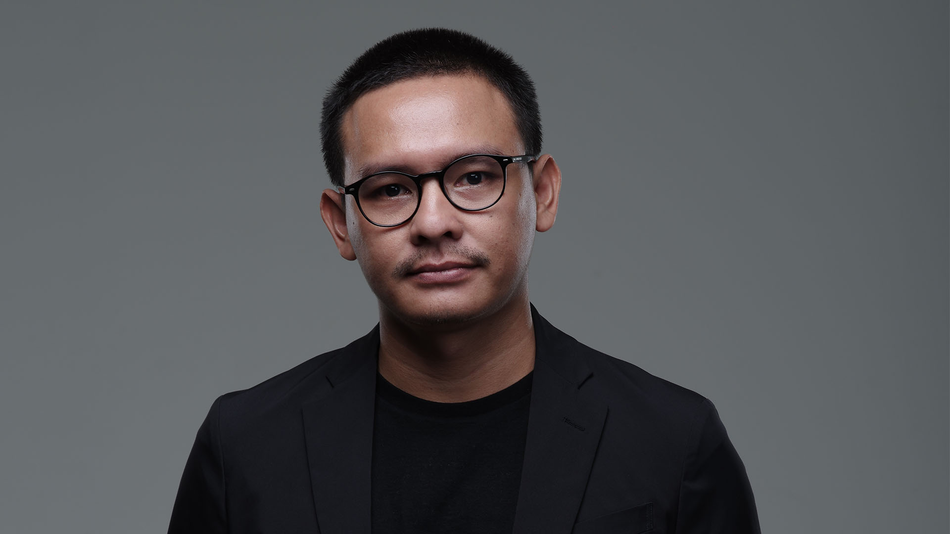 picture